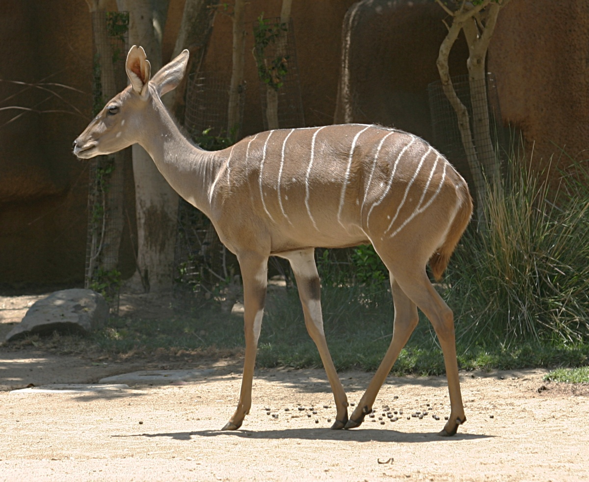 A Southern Lesser Kudu at the San Diego Zoo in San Diego, California, USA.